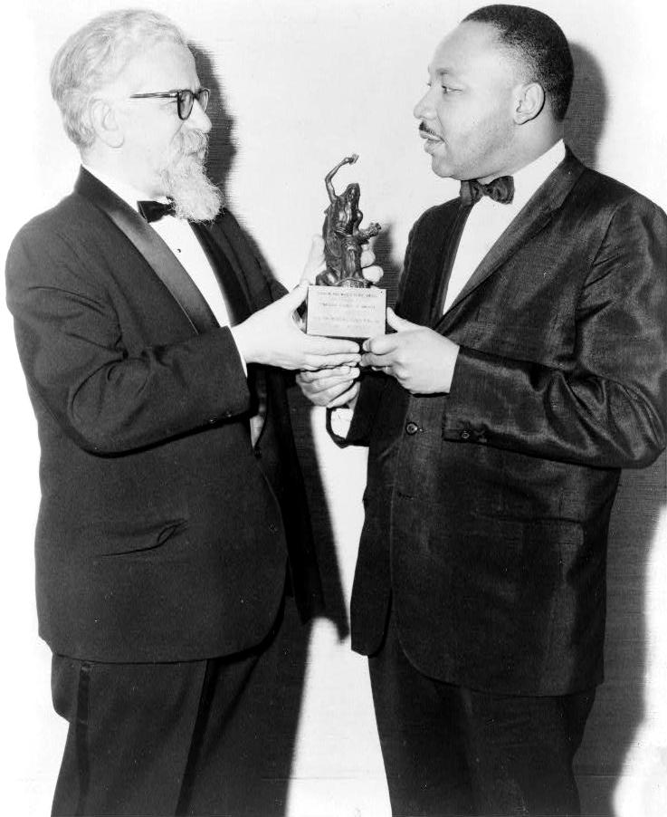 Rabbi Abraham Heschel, three-quarter length portrait, presenting Judaism and World Peace award to Dr. Martin Luther King, Jr.